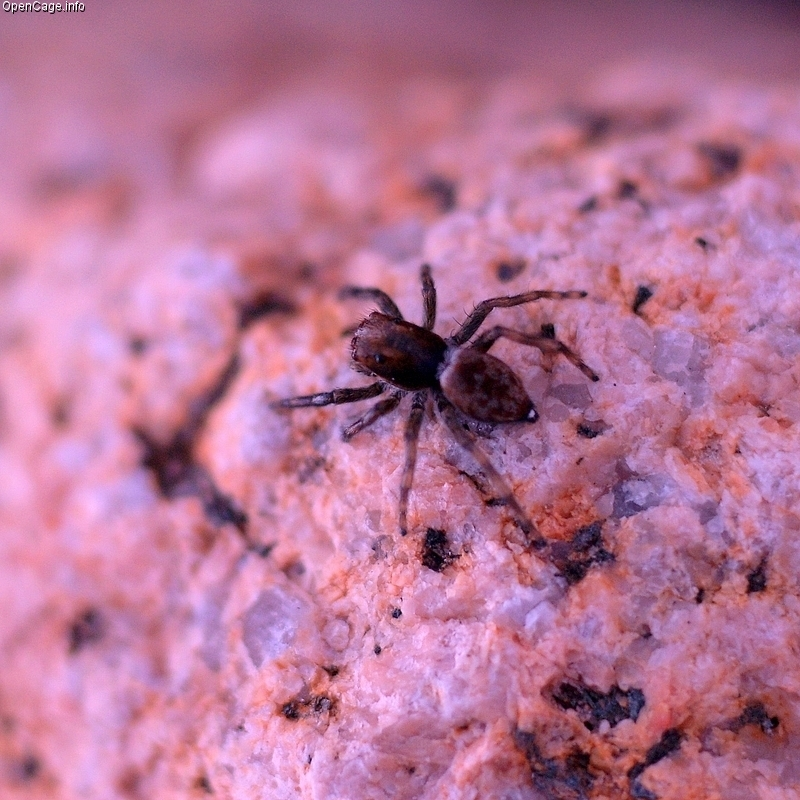 イソハエトリ Hakka himeshimensis Location 兵庫県芦屋浜, Ashiya city, Hyogo pref., Japan Copyright OpenCage